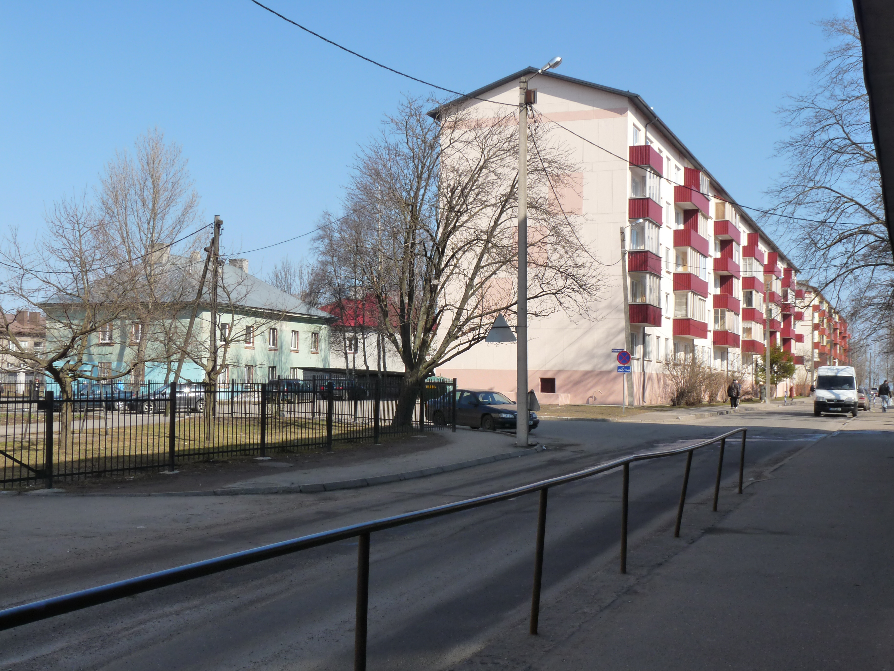 Uus-Maleva street in Tallinn